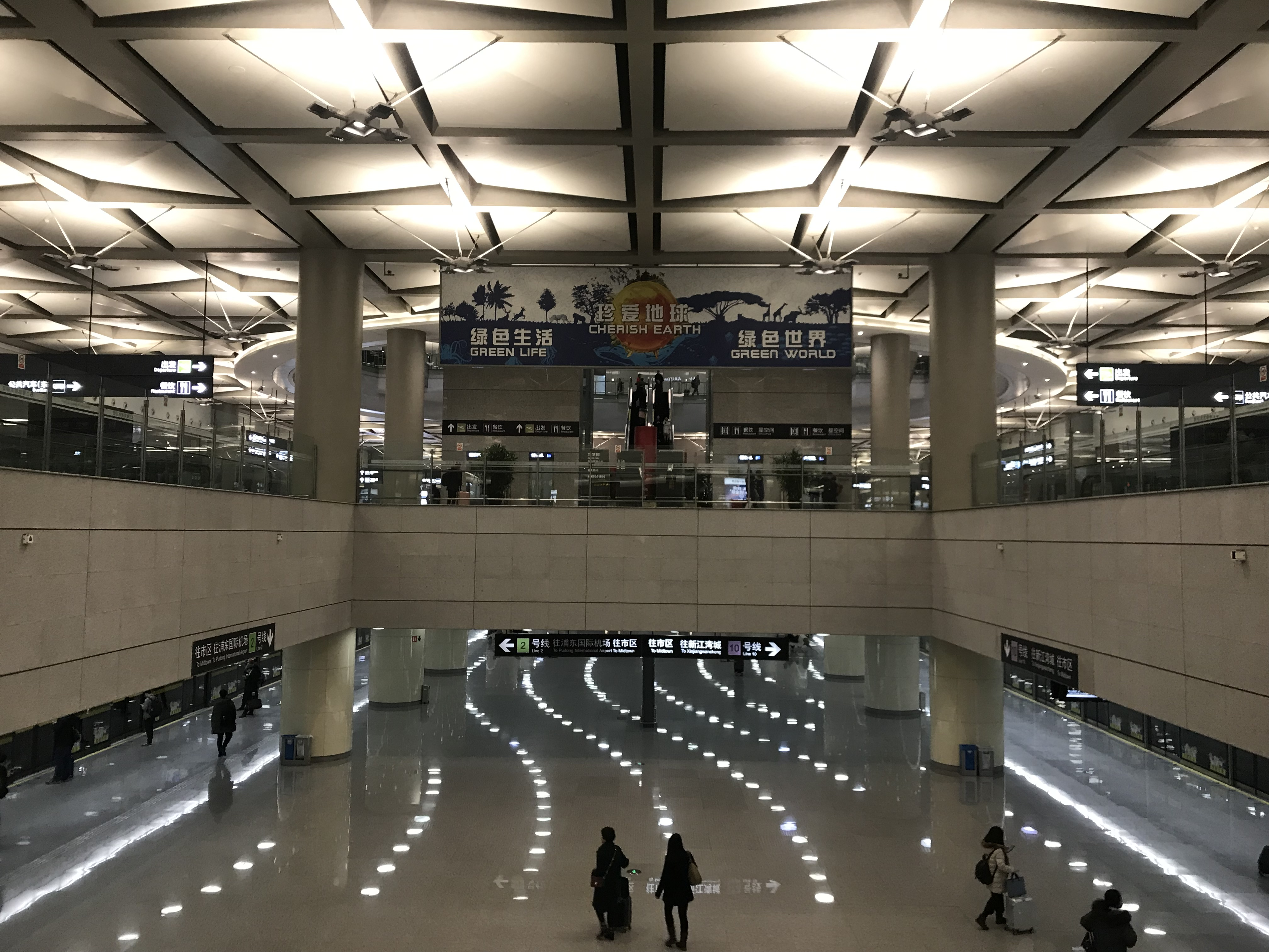 201901 Center Lobby of Metro Hongqiao Airport Terminal 2 Station